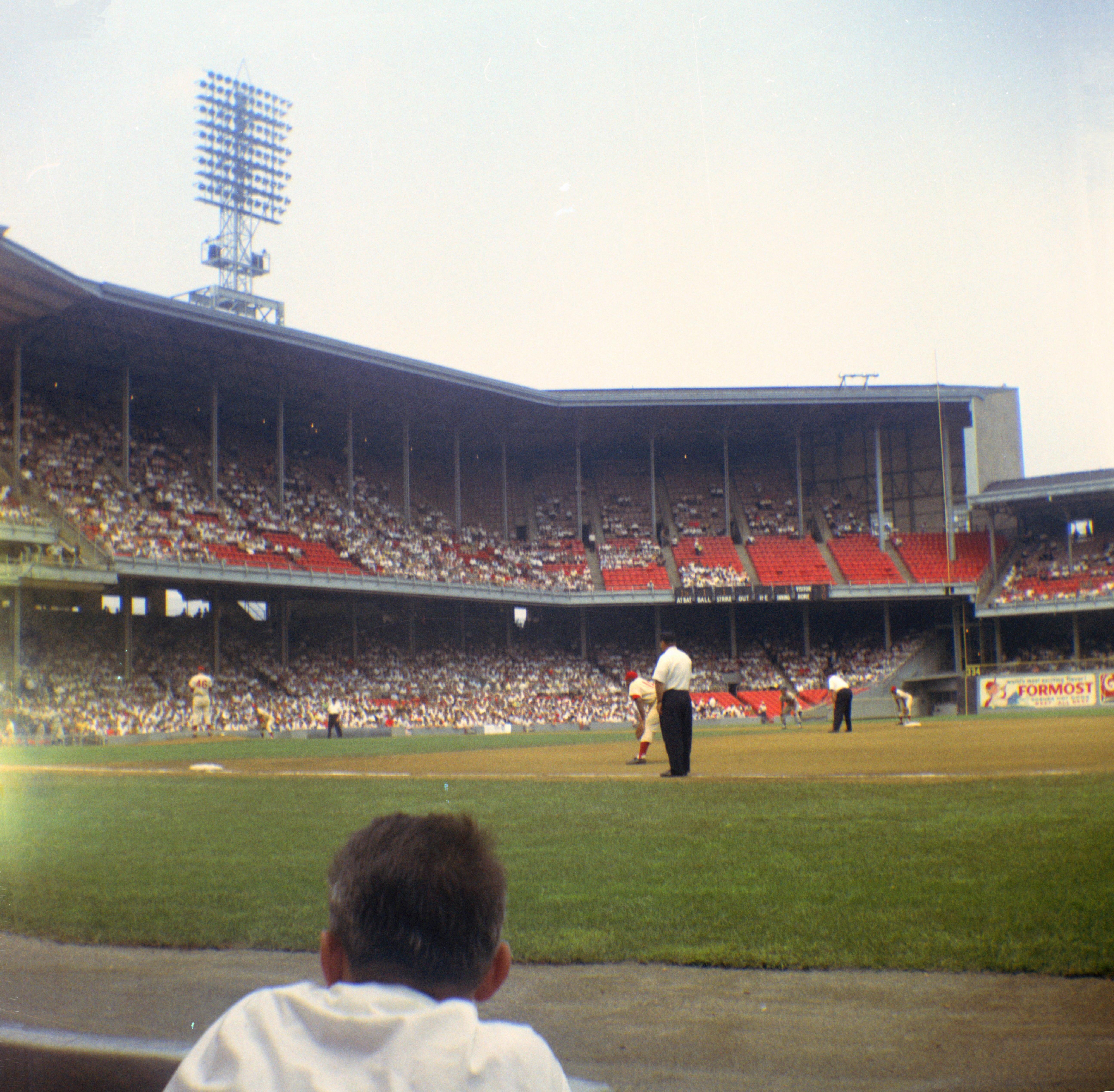 A color photo of Shibe Park during the first game of a doubleheader in August 1960. Photo courtesy of xnedski, via Flickr.